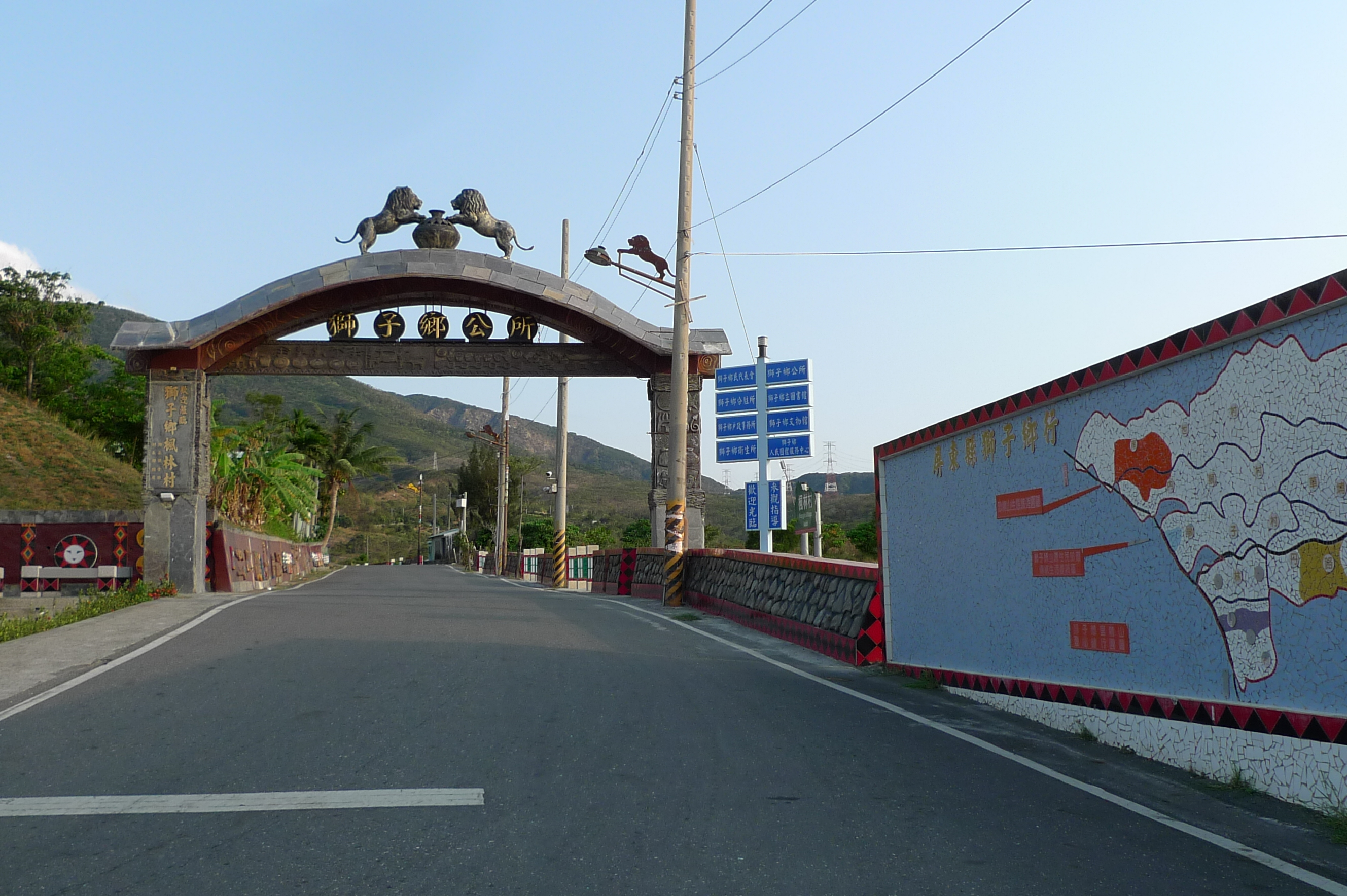 The arch of Shizi Township Office located in Fonglin Village.The office is the administrative centre of Shizi Township.The picture right shows map of Shizi Township.中文（台灣）: 獅子鄉公所的拱門位於楓林村。這公所是獅子鄉的行政中心。圖右顯示獅子鄉地圖。